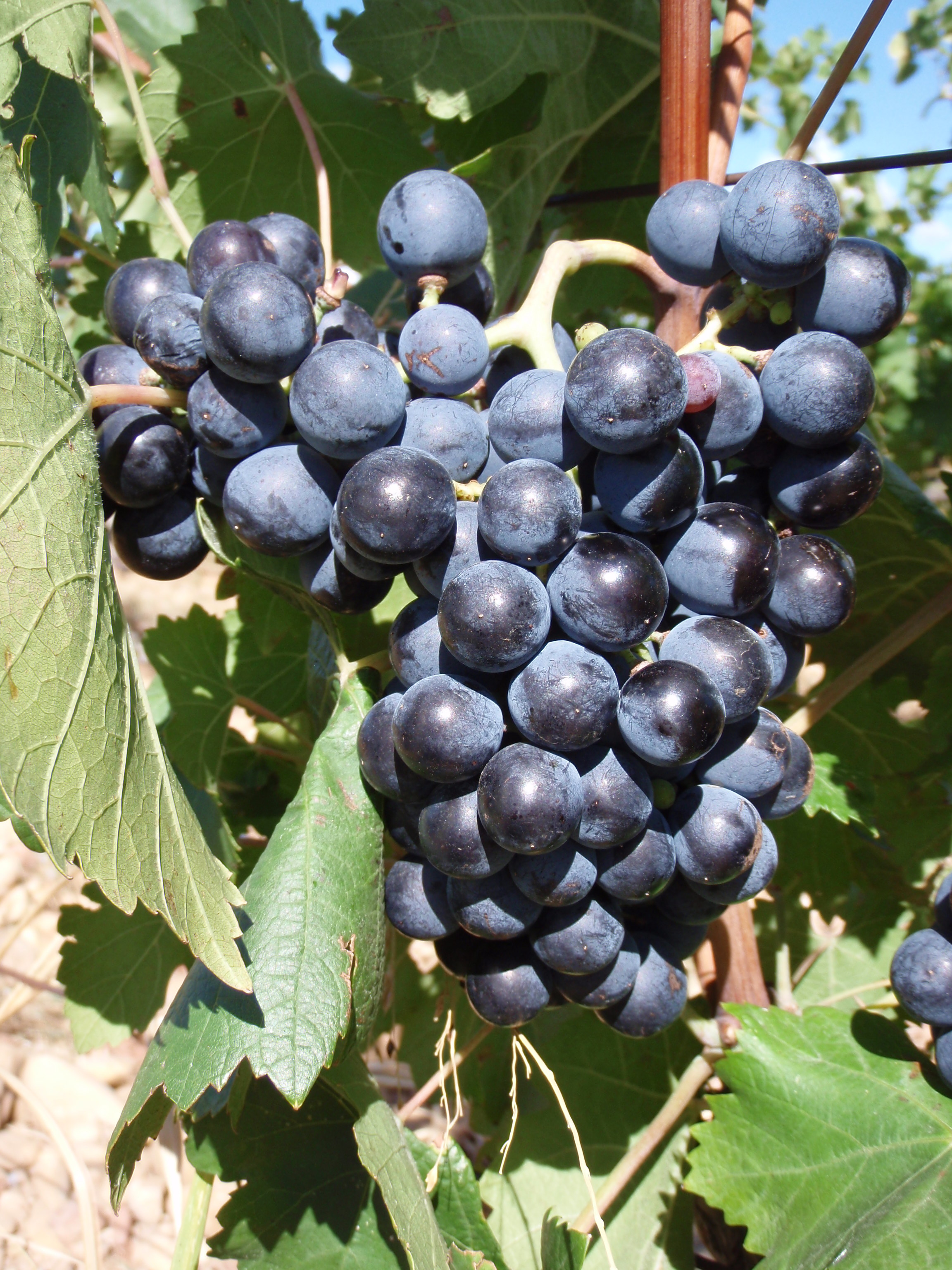 Brun Argente grape variety